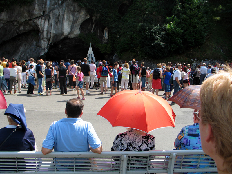 Grotte de Massabielle, Lourdes, France